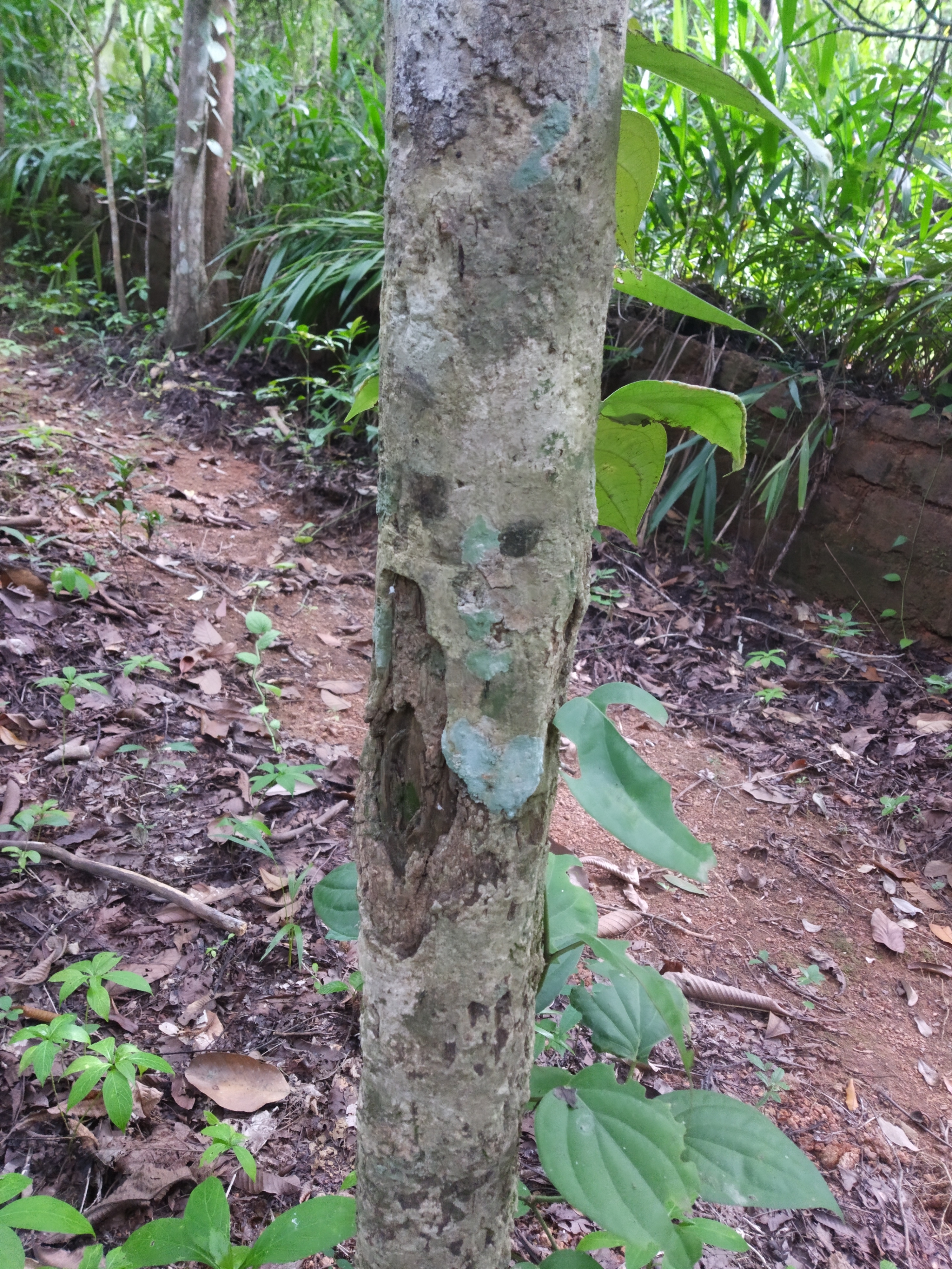 ಸೋಮವಾರದಮರ